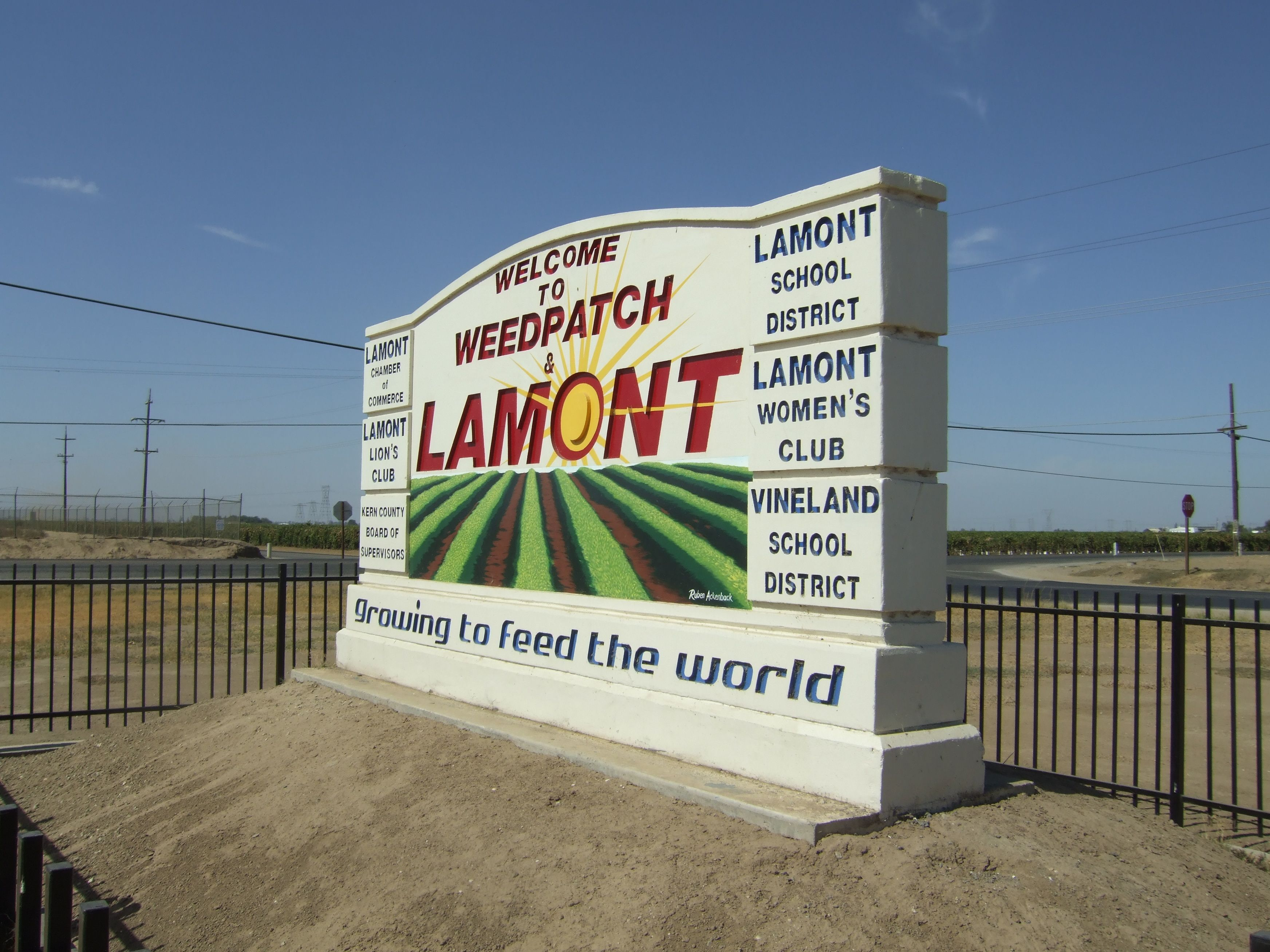 Welcome sign for the rural communities of Weedpatch and Lamont, on California State Route 184. Other information Photo by George Garrigues.